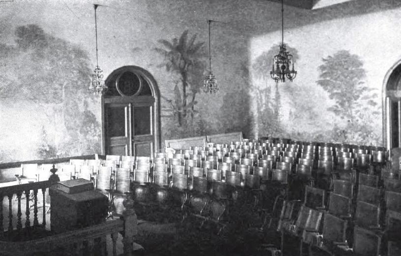 Photograph of the Garden Room in the Salt Lake Temple of The Church of Jesus Christ of Latter-day Saints.